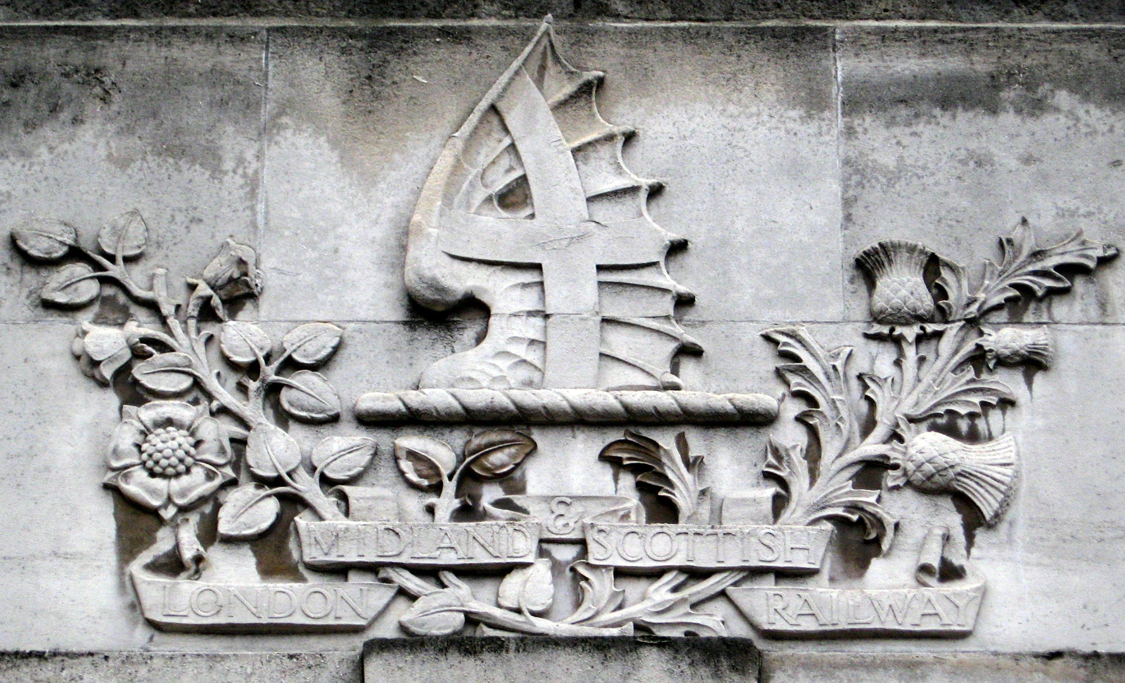 LMS shield carved into stonework on station building in Leeds